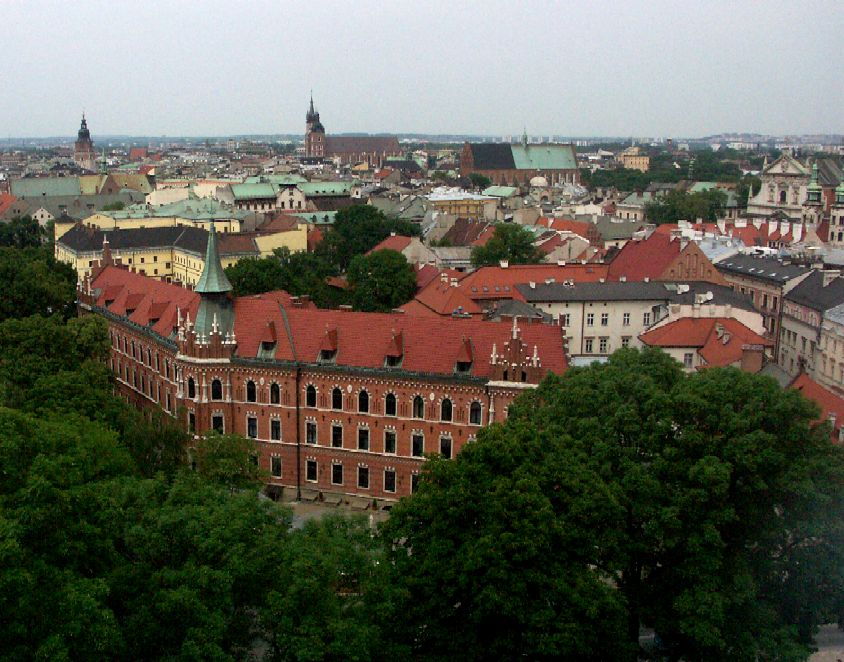 View of the Kraków from Wawel hill